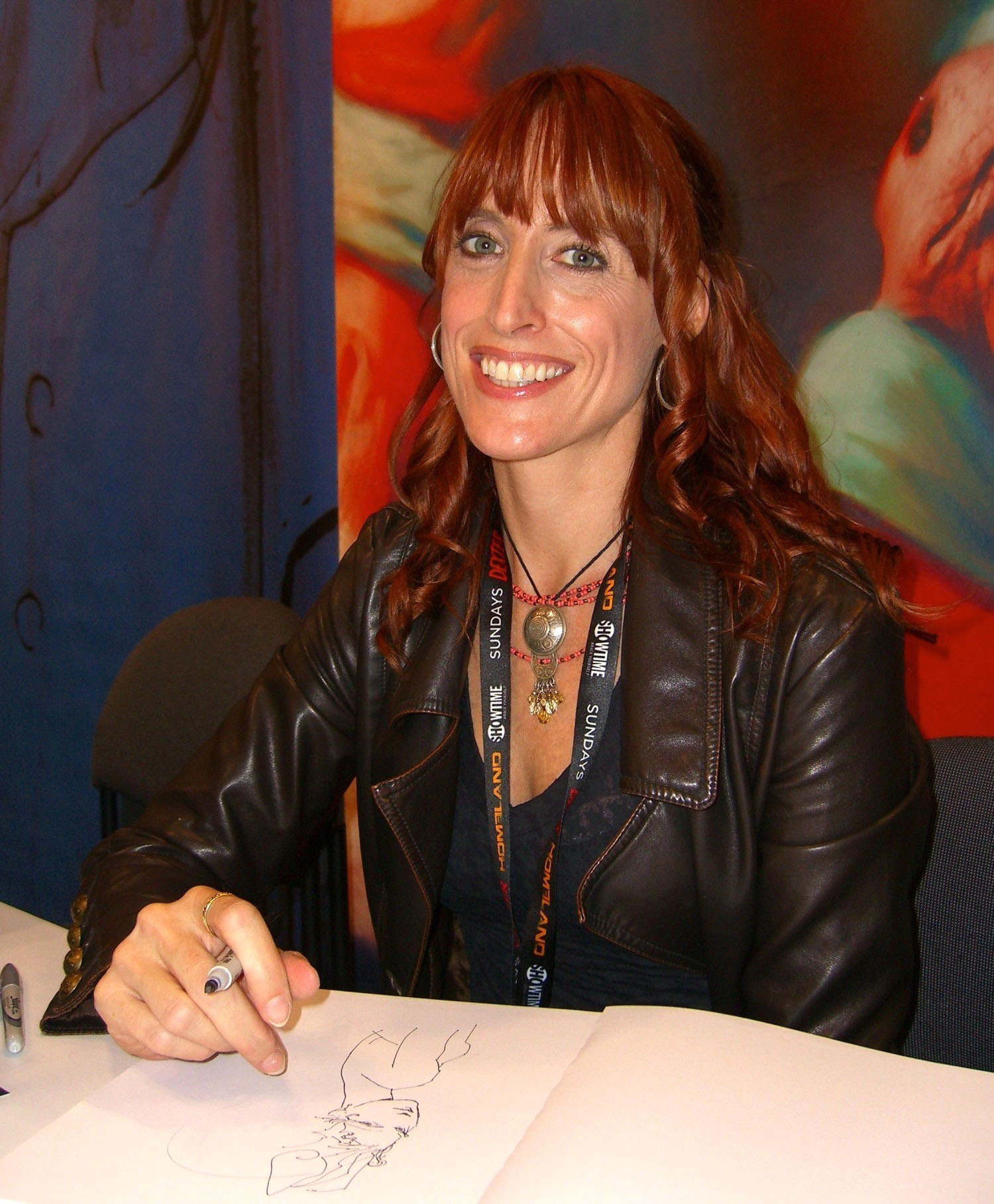 Comics creator Rebecca Guay at the 2011 New York Comic Con, Friday, October 14, 2011. This photo was created by Luigi Novi. It is not in the public domain, and use of this file outside of the licensing terms is a copyright violation.